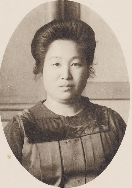 This photo is Professor NIKAIDO Tokuyo in 1920.